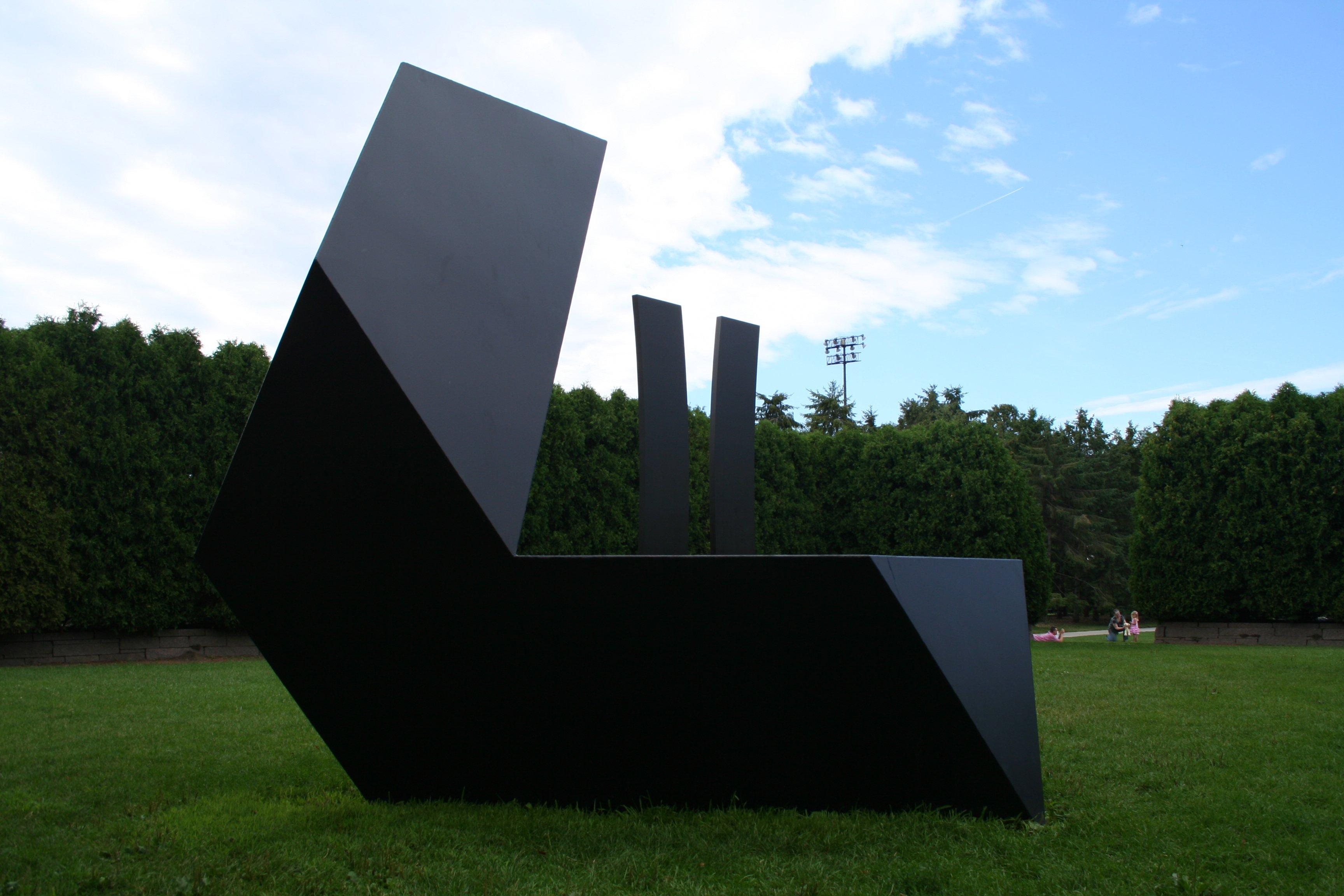 [Amaryllis, (sculpture). 1965. Walker Art Center, Vineland Place, Minneapolis, Minnesota 55403] I took a bunch of pictures of this thing in the foreground. But after this one, I upped my exposure level and all of my later photos are a bit washed out. Ah well.